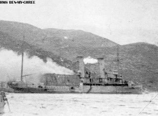 Royal Navy aircraft carrier Ben-My-Chree while burning and sinking after having been hit by shorefire in Castellorizo on 11 January 1917